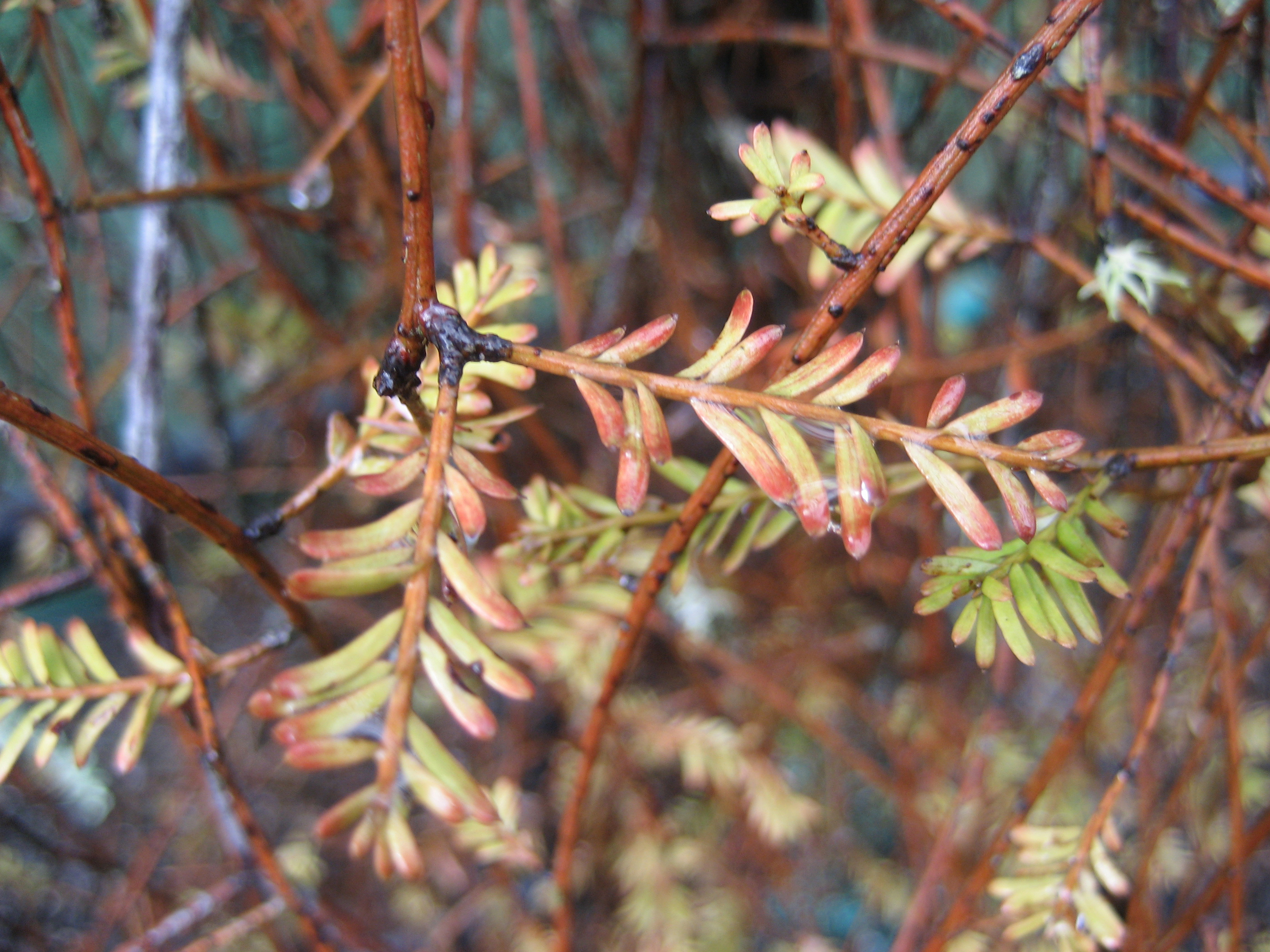 juvenile foliage of a Mataī, Prumnopitys taxifolia, Podocarpaceae. Endemic to New Zealand. The juvenile Mataī is a shrub consisting of a tangle of slender, flexuous, divaricating branchlets interspersed with occasional brown, pale yellow, or dirty white leaves. The juvenile stage may last many years, until at last the adult form begins to grow out of the top of the shrub; then the divaricating branches atrophy and drop away.